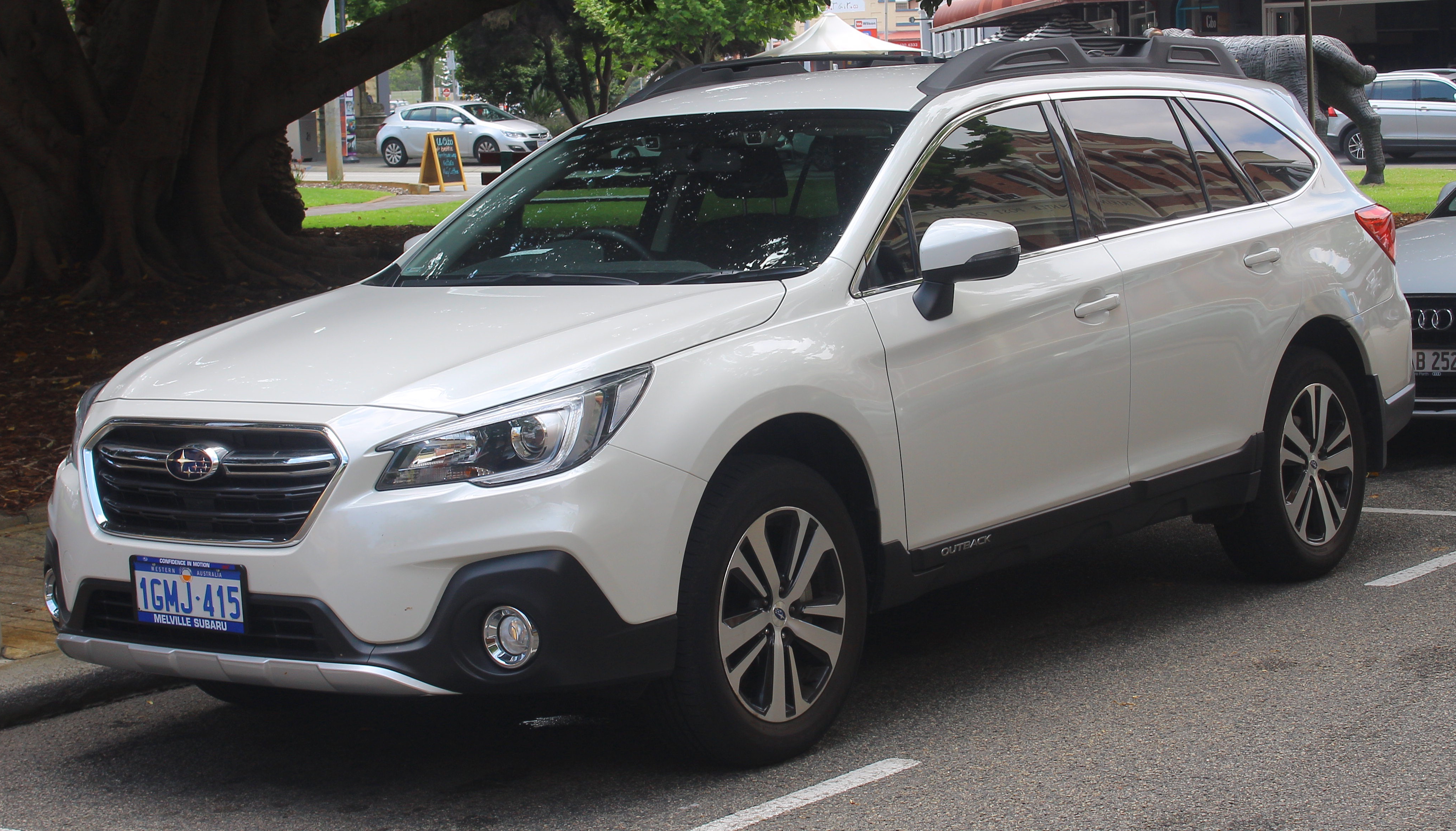 2018 Subaru Outback (BS9 MY18) 2.5i station wagon. Photographed in Fremantle, Western Australia, Australia.